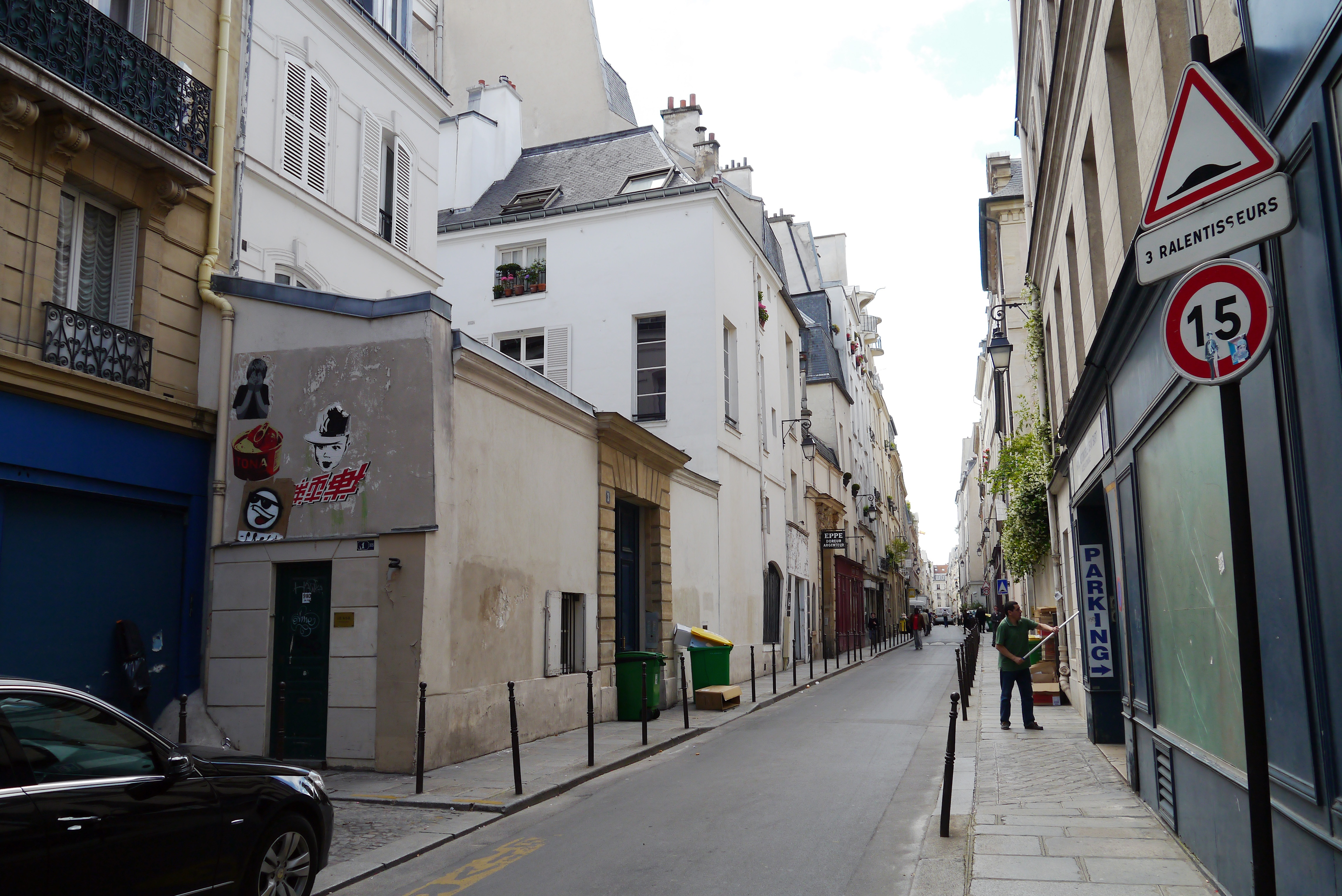 Rue Chapon, Paris 3rd arrondissement. View from rue du temple towards West.